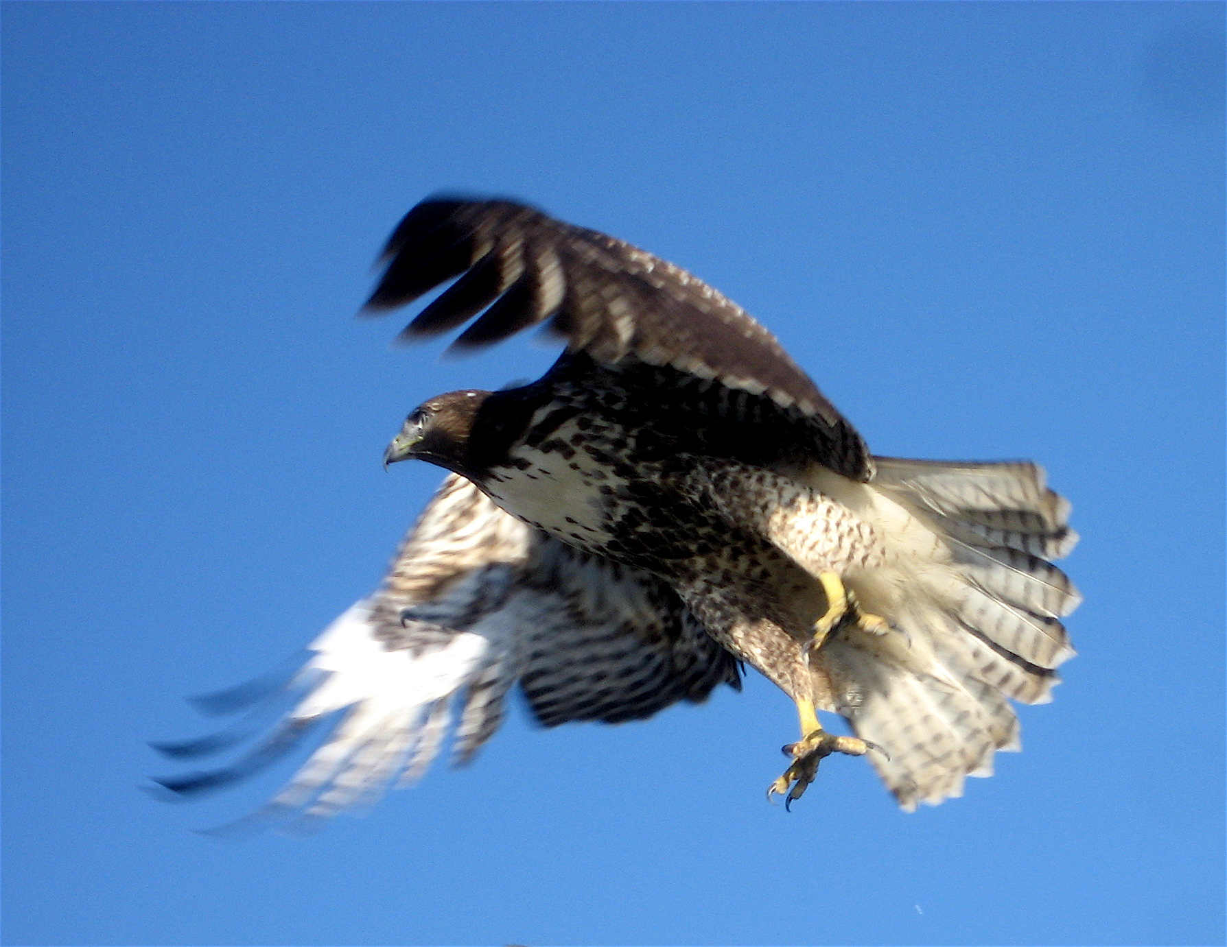 A Red-Tail Hawk (Buteo jamaicensis) flying. Half Moon Bay, California, USA.Rapt-o-rama